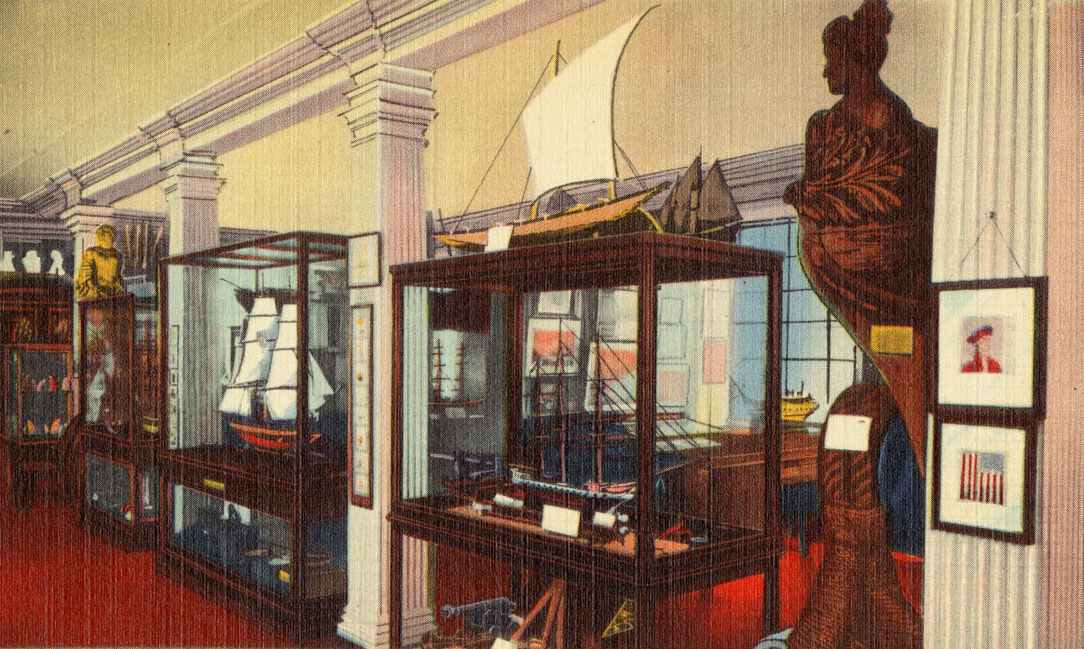 Accession No.: 06_10_000062 Subject: Boston (Mass.) Front Caption: Marine Museum, Old State House, Built 1713, Boston, Mass. Back Caption: The Old State House, Boston, Mass., Built 1713. "Here the loyal assemblies obeyed the Crown; here the spirit of liberty was aroused and guided by the eloquent appeals and sagacious counsels of Otis, Adams, Quincy, Warren, Cushing, and Hancock; 'here the child Independence was born'". Within its wall are the collections of the Bostonian Society which relate to the history of Boston. Publishing information: The Bostonian Society, Old State House, Boston, Mass. Tichnor Bros. Inc., Boston, Mass. Format: postcard BPL Collection: Tichnor BPL Department: Print Department